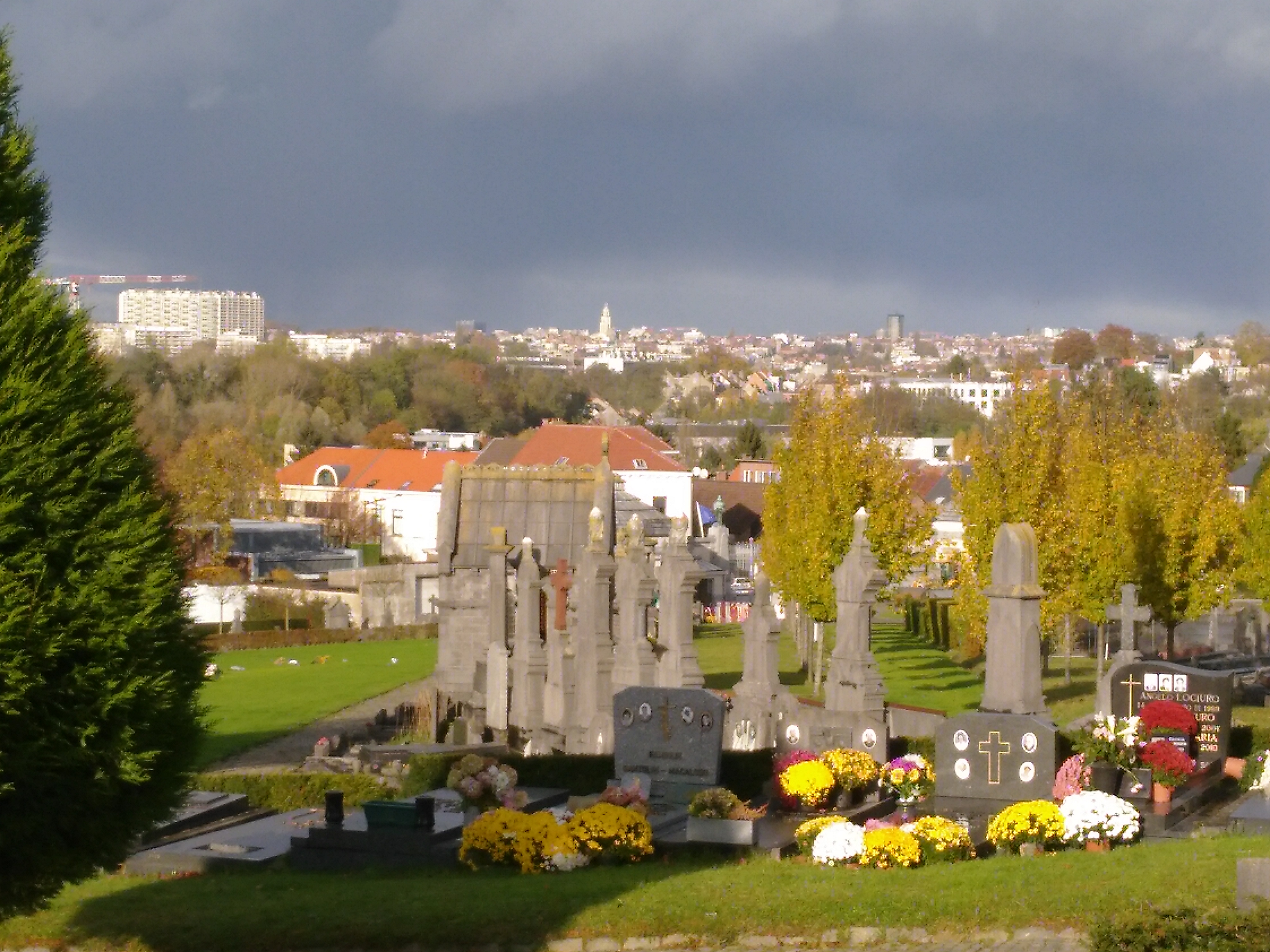 Cemetary of Saint-Gilles, Brussels.